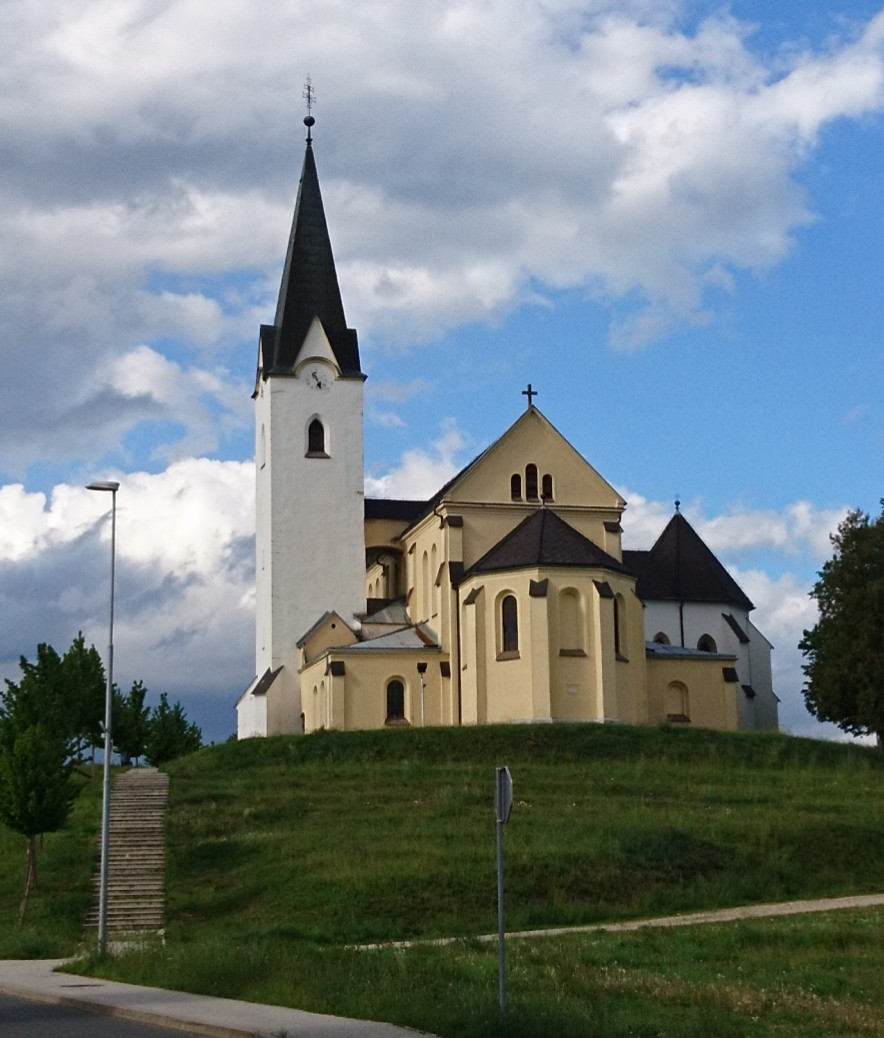 Church of St. George, Jurij, Slovenia